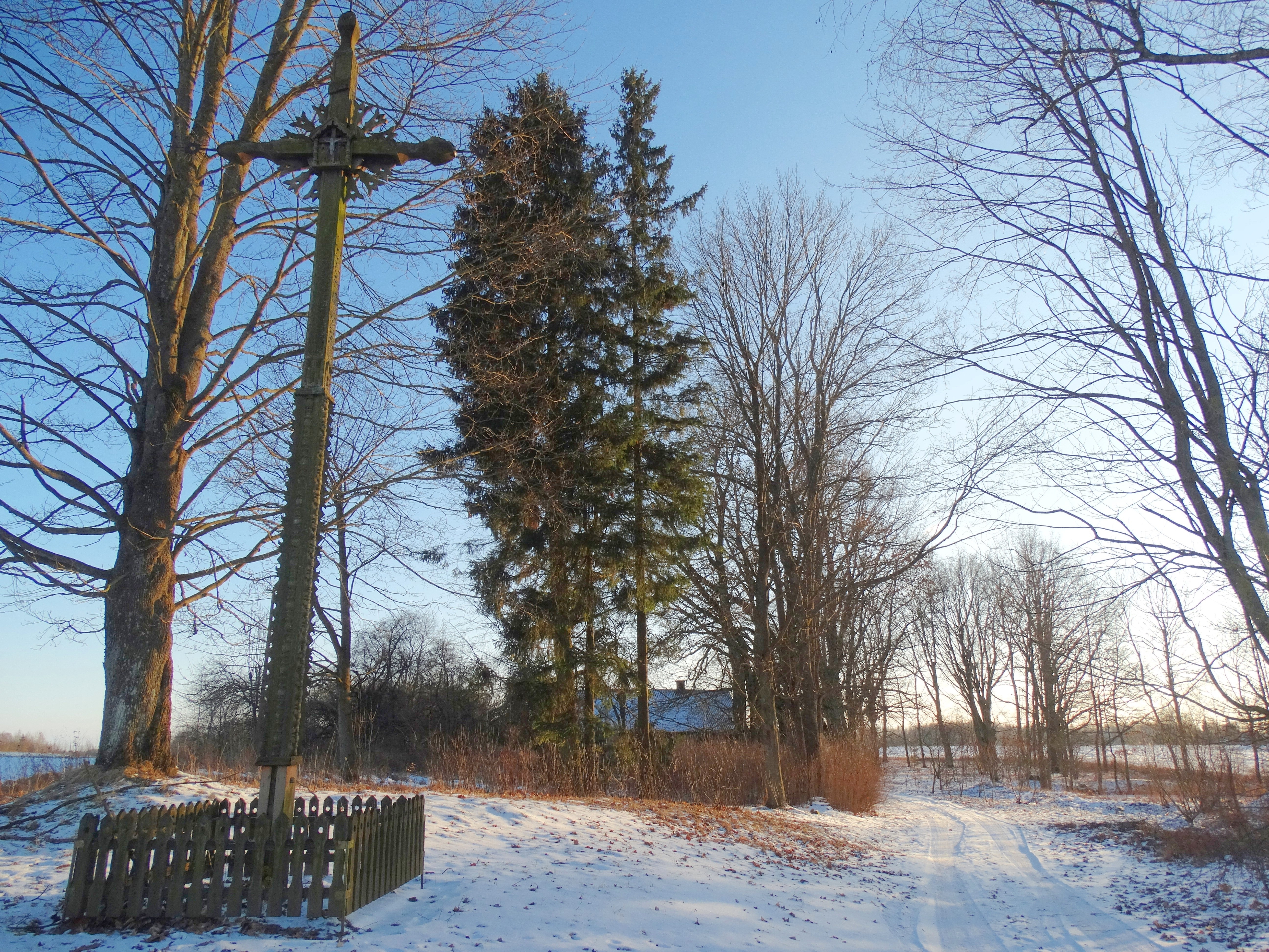 Pliopliai, Kazlų Rūda municipality, Lithuania